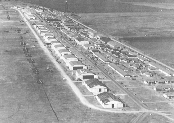 Kelly Field - Texas - 1920